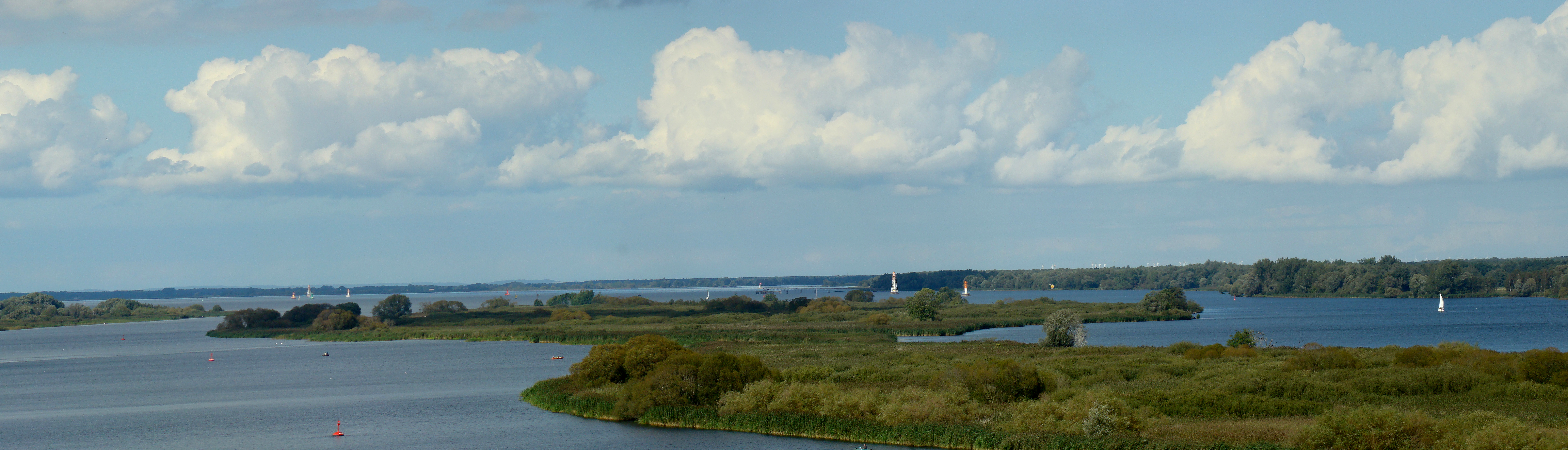 Wielki Karw, Odra, Poland